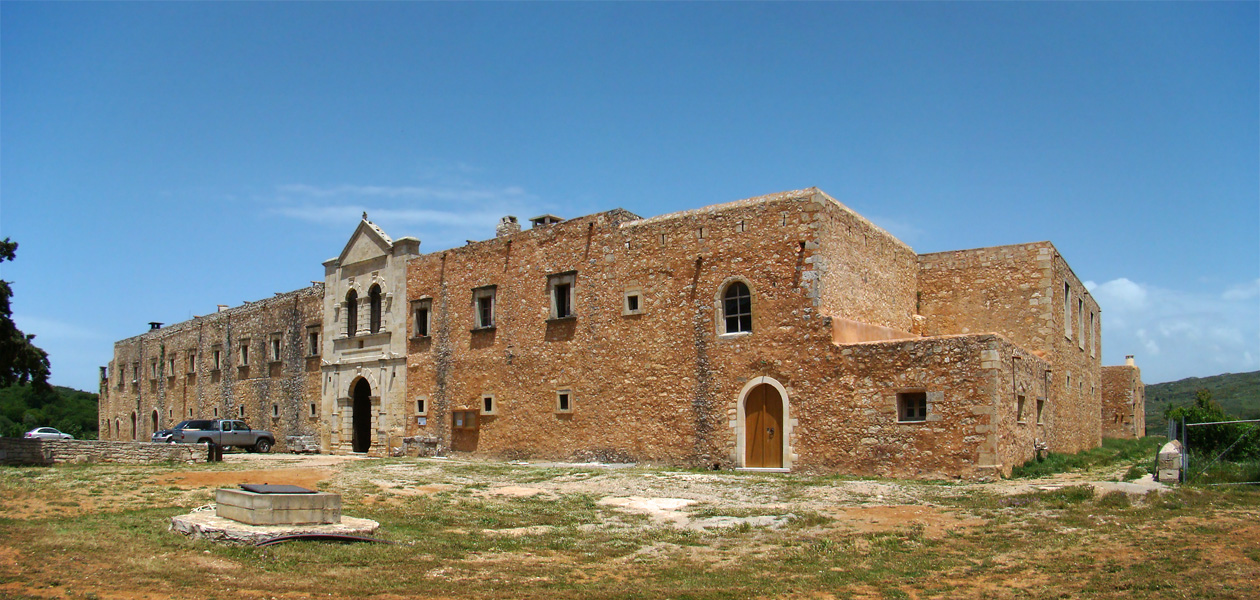 Arkadi Monastery, Crete, Greece.